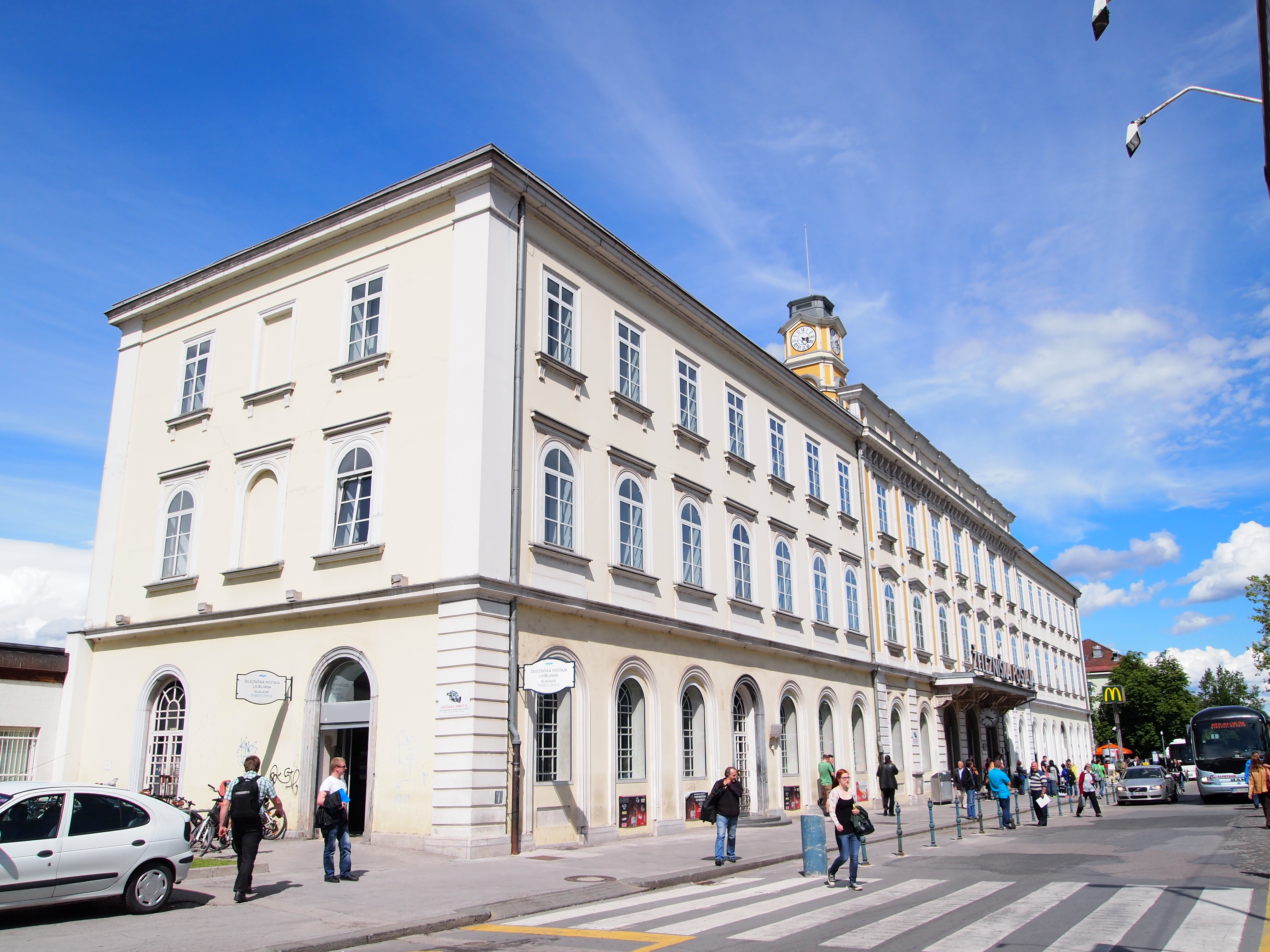 Ljubljana train station This photograph was taken with a Olympus E-PL1.